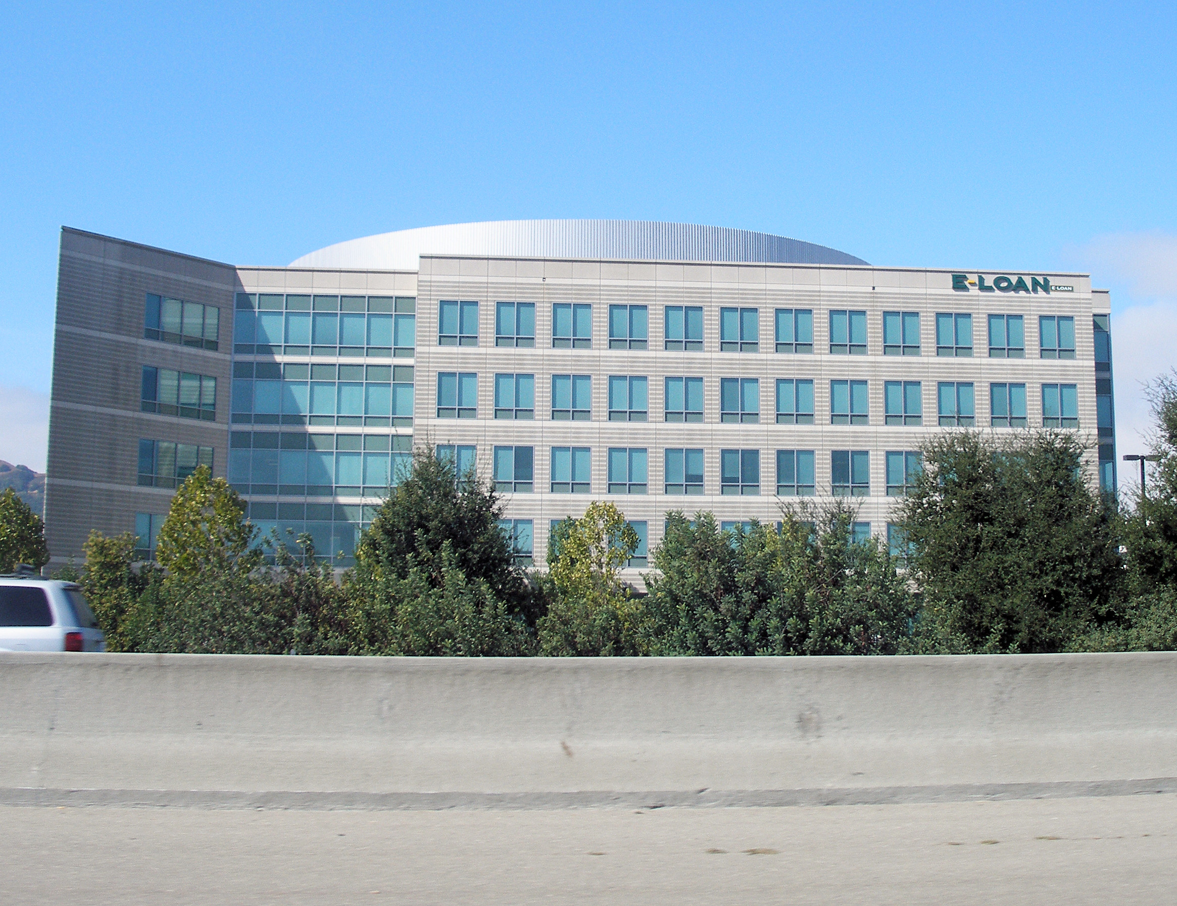 E-LOAN headquarter in Pleasanton, as seen by passing traffic on northbound Interstate 680.